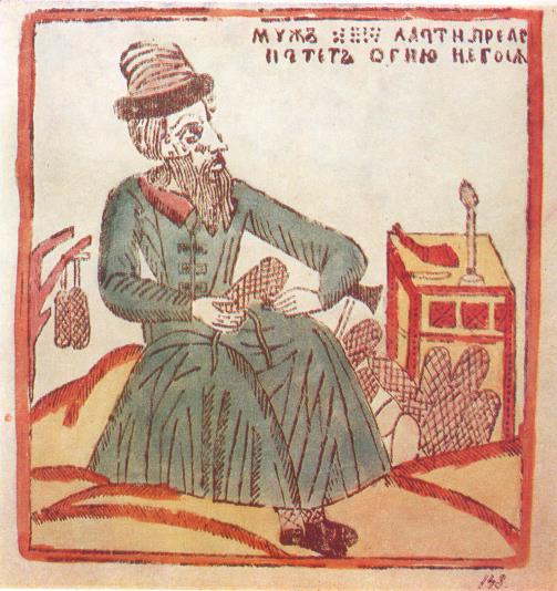 A peasant making lapti (traditional wooden footwear). Russian lubok, XVIIIth century (?).